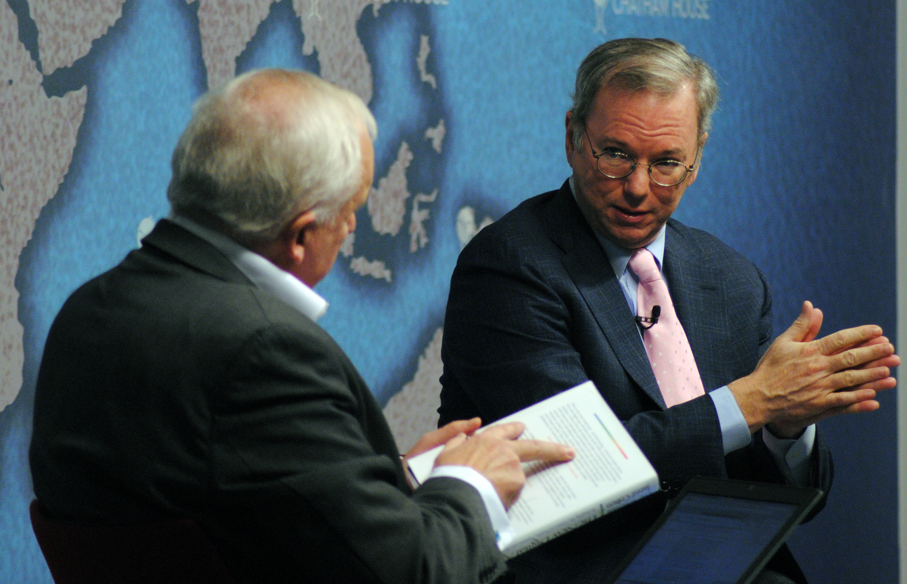 Power and Commerce in the Internet Age, 25 November 2013 cht.hm/1ixrhmP